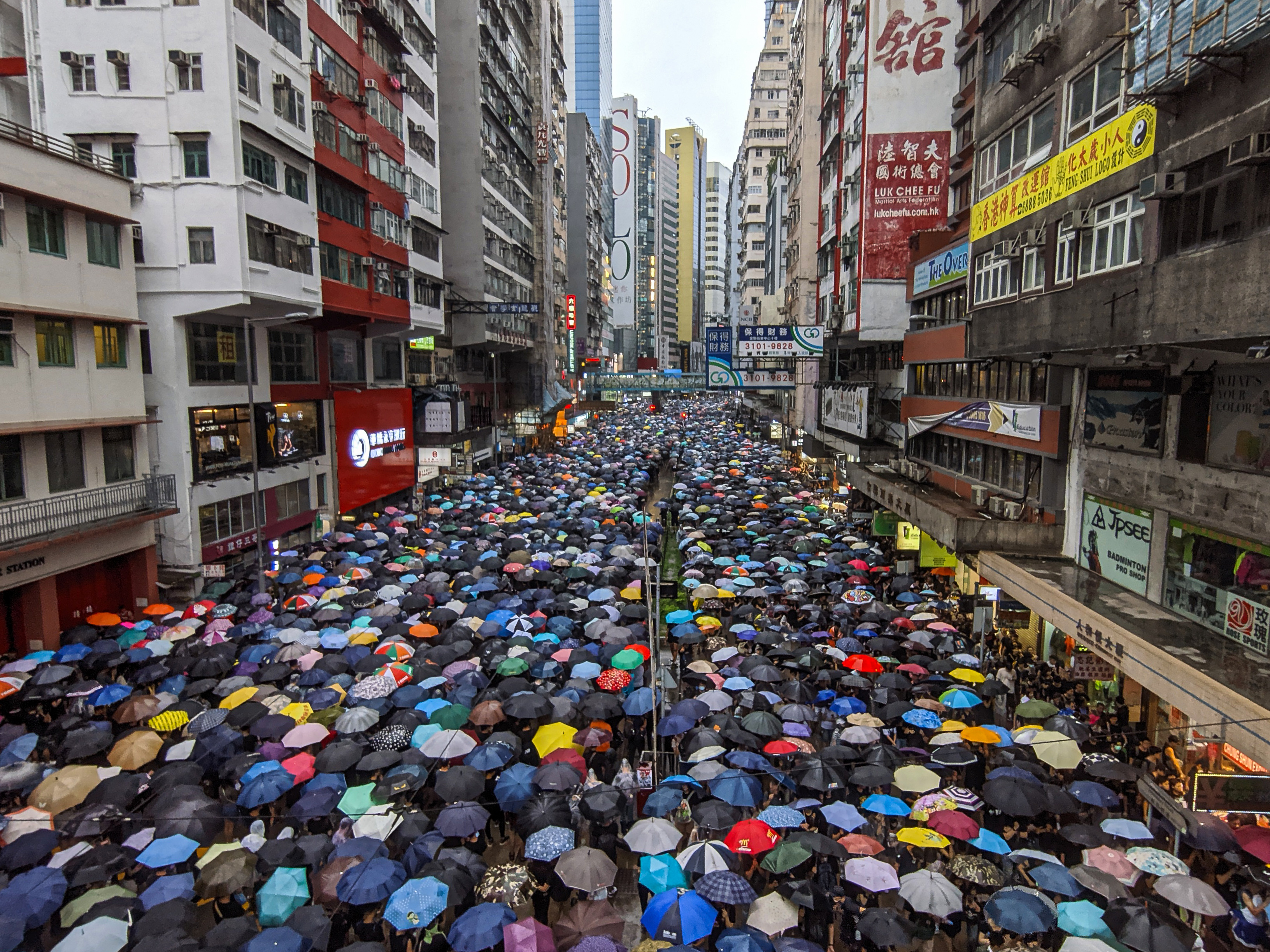 Protesters brave heavy rain as they march against the 2019 Hong Kong extradition bill on Sunday, August 18, 2019.